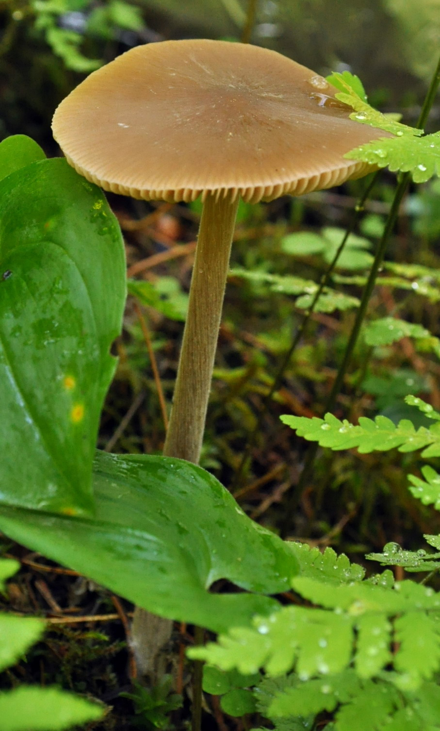 Entoloma hirtipes (Schumach.) M.M. Moser Location: Khanty-Mansiysk, Russia Observation Notes: on the ground in coniferous woodcap ø 5 cm, slightly striate near the margin; stem 11 cm, fibrillose, twisted, fragile, with short hairs on the top; smell mealy For more information about this, see the observation page at Mushroom Observer.